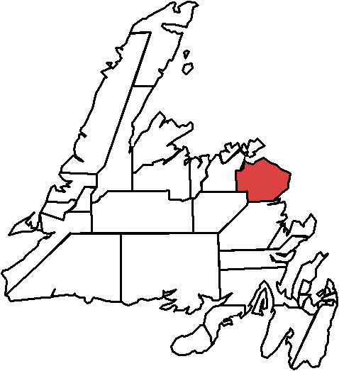 Map based on work by Earl Andrew, from maps used in 2007 elections Map based on work by Earl Andrew, from maps used in 2007 elections